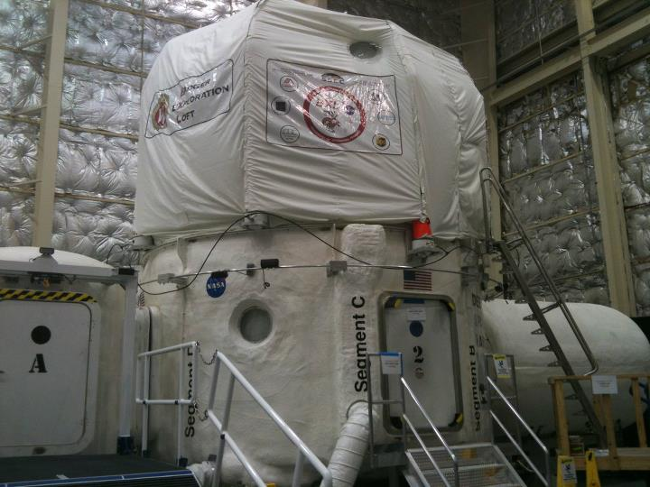 This is the Deep Space Habitat/Habitat Demonstration Unit (DSH/HDU) as it will be configured for the 2011 field test. Crew sleep, eat and "live" in the top section, called the Loft, which was designed by University of Wisconsin students. The Hygiene unit is to the right of the main floor and the airlock is to the left. The analytical lab (Geolab) and workstations that enable a crewmember to communicate with EVA crew during a traverse are located below the Loft.